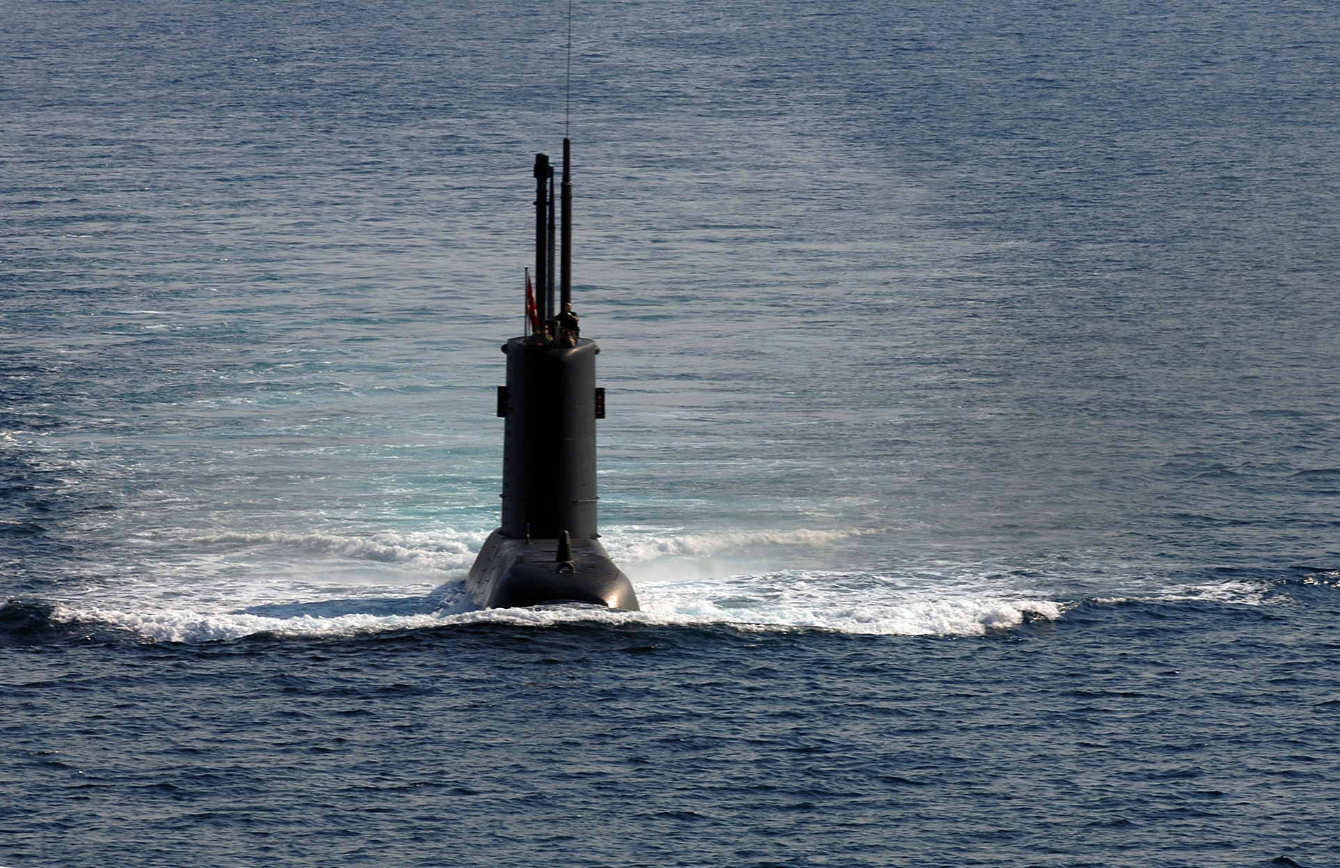 Gulf of Taranto, Italy (June 24, 2005) - The Turkish submarine Preveze surfaces following the North Atlantic Treaty Organization (NATO) submarine escape and rescue exercise Sorbet Royal 2005. Divers from various nations will work together to rescue submariners during the exercise in the Mediterranean. Twenty-seven participating nations, including 14 NATO nations will test their capabilities and interoperability. Four submarines with up to 52 crewmembers aboard will be placed on the bottom of the ocean, while rescue forces with rescue vehicles and systems work together to solve complex disaster rescue problems. U.S. Navy photo by Chief Journalist Dave Fliesen (RELEASED)